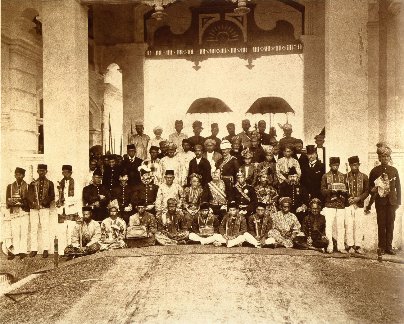 First Durbar (Conference of Rulers) held at the Astana Negara in Kuala Kangsar, Perak, Federated Malay States (present-day Malaysia) in 1897. Seated, left to right: Hugh Clifford (Resident of Pahang), J.P. Rodger (Resident of Selangor), Sir Frank Swettenham (Resident-General), Sultan Ahmad (Pahang), Sultan Abdul Samad (Selangor), Sir Charles Mitchell (British High Commissioner), Sultan Idris (Perak), Tuanku Muhammad (Yand di Pertuan Besar of Negeri Sembilan) and W.H. Treacher (Resident of Perak).